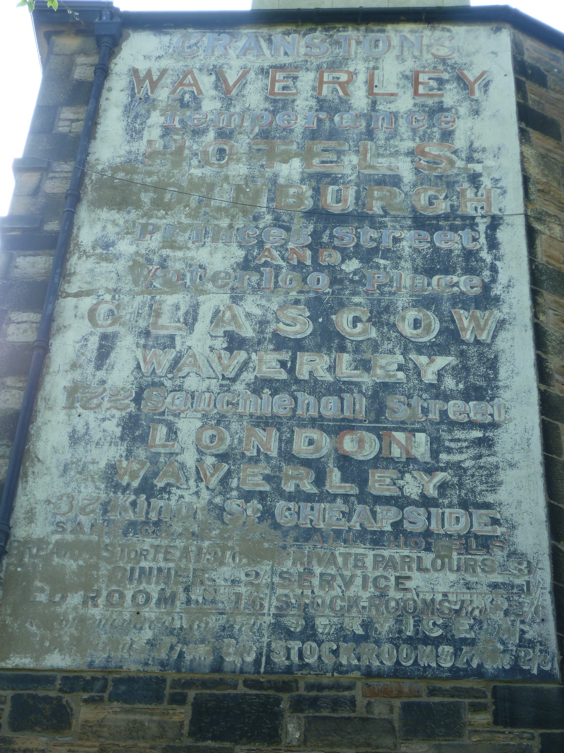 A faded advertisement for Cranston Temperance Hotels in Edinburgh, Glasgow and London. It was positioned to be viewed from trains approaching Edinburgh on the main east-coast line and from the platforms and south-bound trains at Abbeyhill Station.